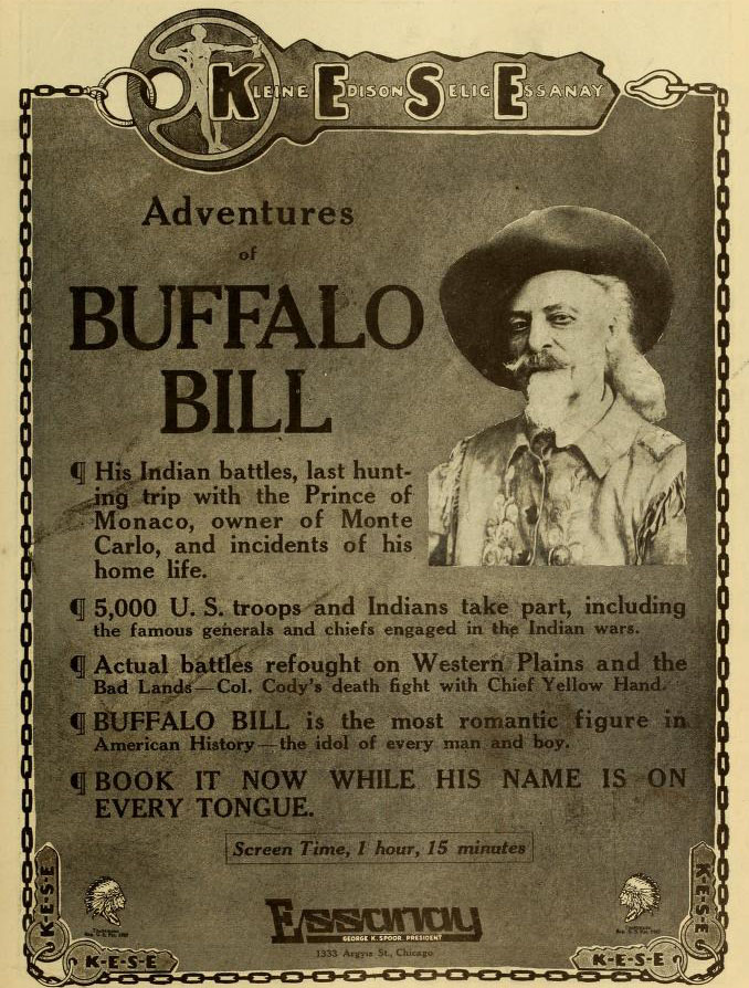 Advertisement in Moving Picture World